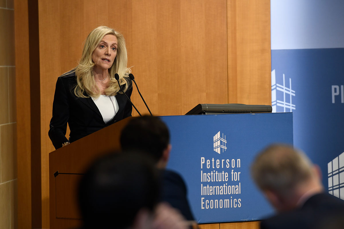 Governor Brainard gives a speech on Assessing Financial Stability over the Cycle at the Peterson Institute for International Economics in Washington, D.C. Read more